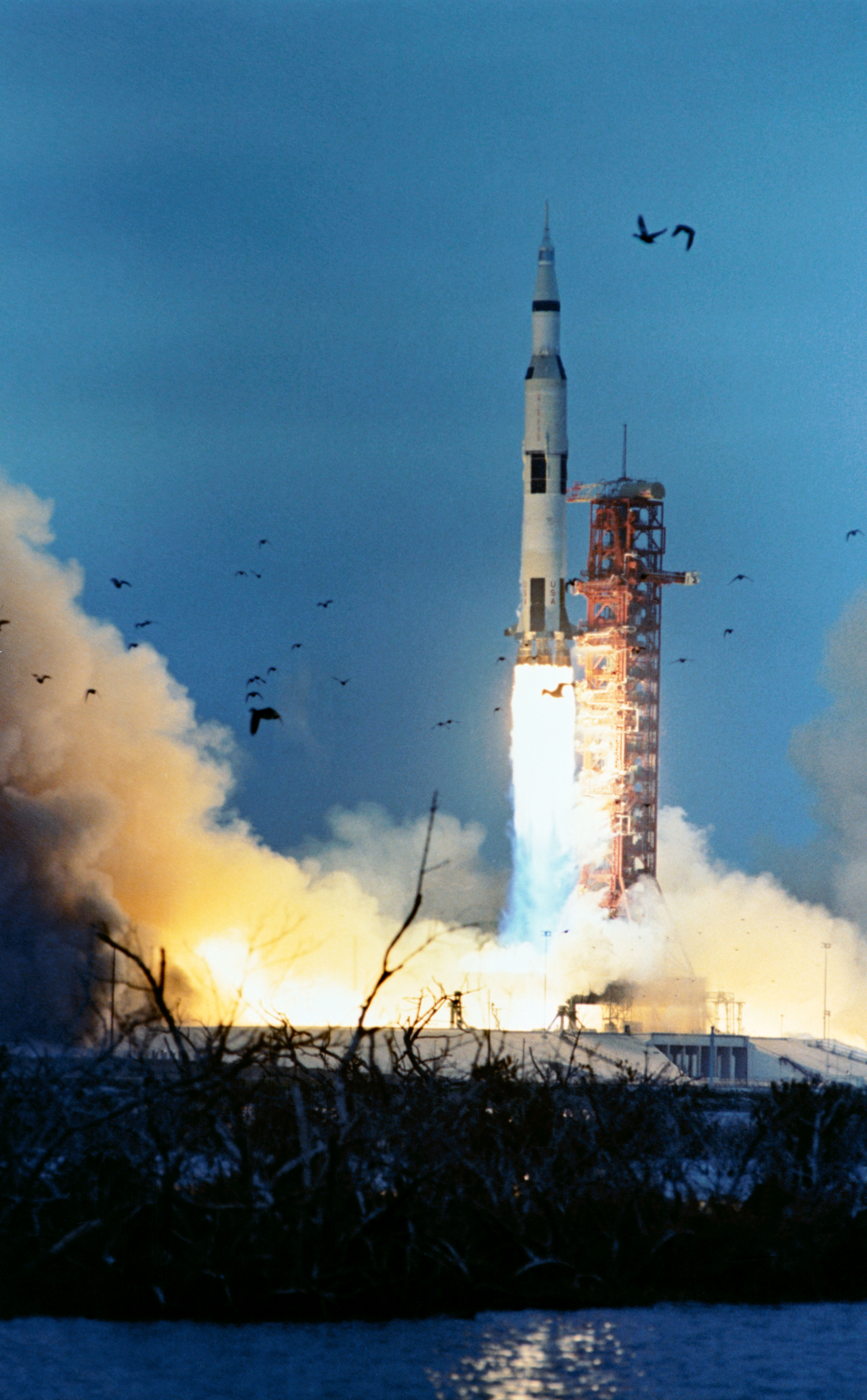 The Apollo 9 (Spacecraft 104/Lunar Module 3/Saturn 504) space vehicle is launched from Pad A, Launch Complex 39, Kennedy Space Center (KSC) at 11 a.m. (EST), March 3, 1969. Aboard the spacecraft are astronauts James A. McDivitt, commander; David R. Scott, command module pilot; and Russell L. Schweickart, lunar module pilot. The Apollo 9 mission will evaluate spacecraft lunar module systems performance during manned Earth-orbital flight. Apollo 9 is the second manned Saturn V mission.